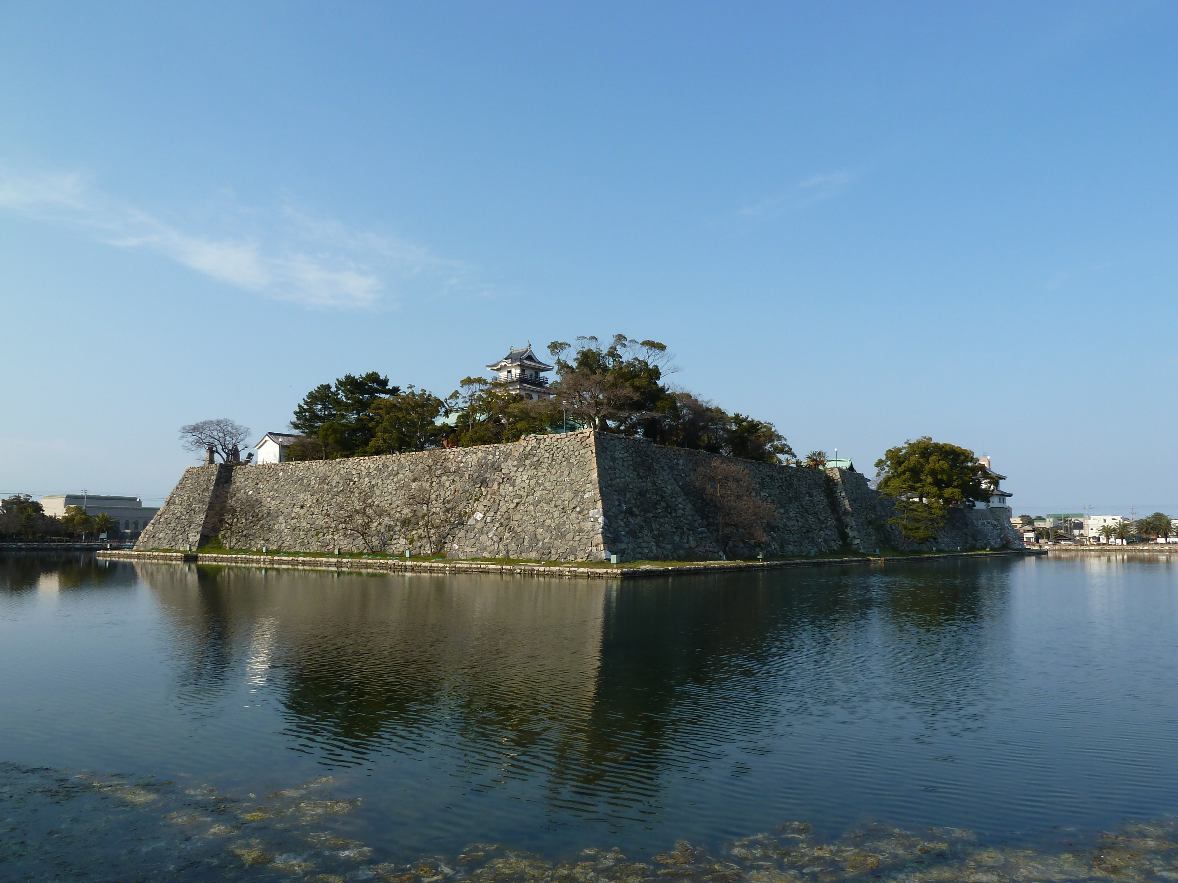 今治城の石垣